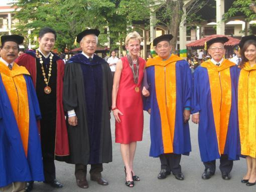 Adel Tamano, Manila Mayor Alfredo Lim, US Ambassador Kirstie Kenney, some members of the Board of Regents and Administrative Staff.